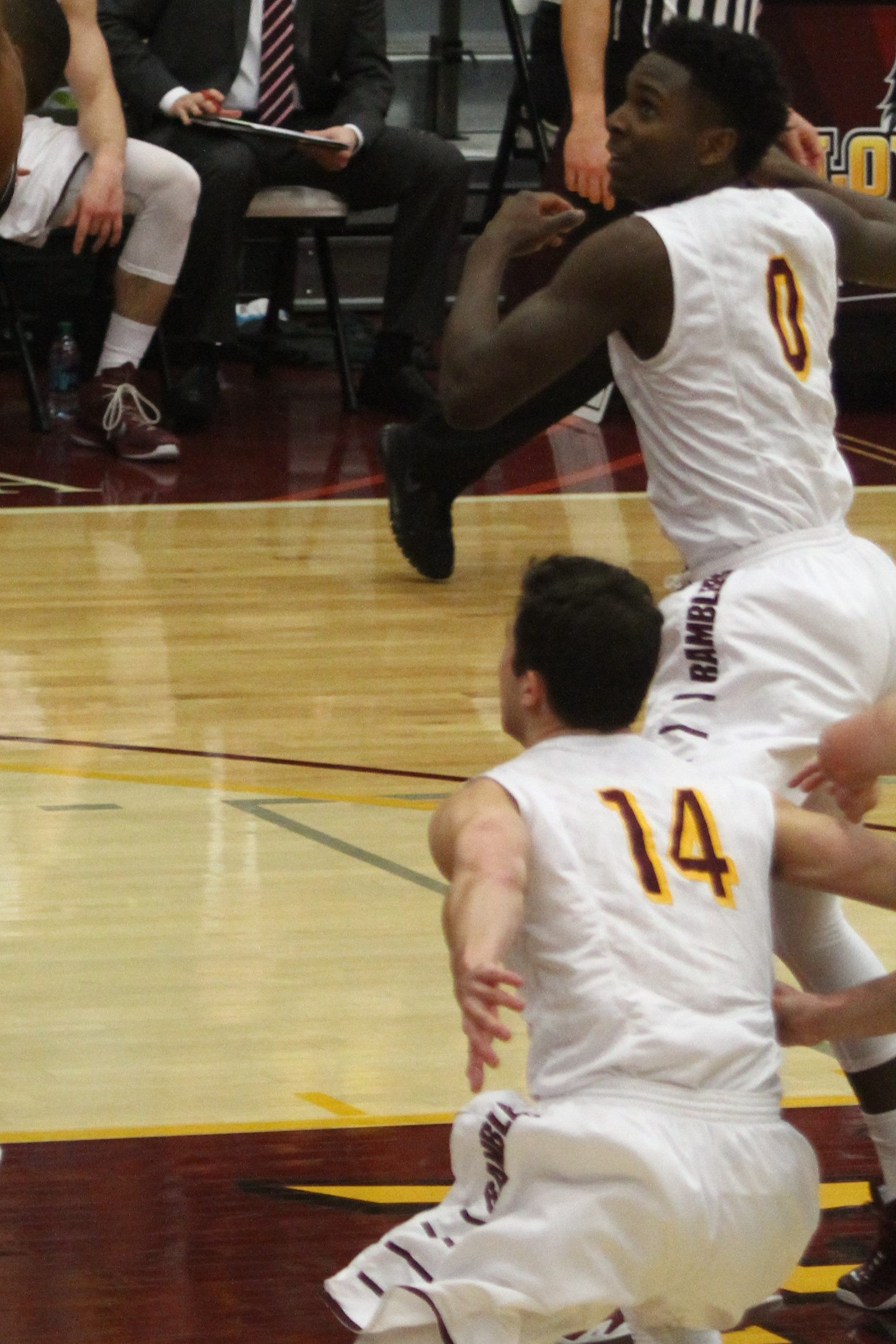 Donte Ingram for the w:2014–15 Loyola Ramblers men's basketball team at Joseph J. Gentile Arena